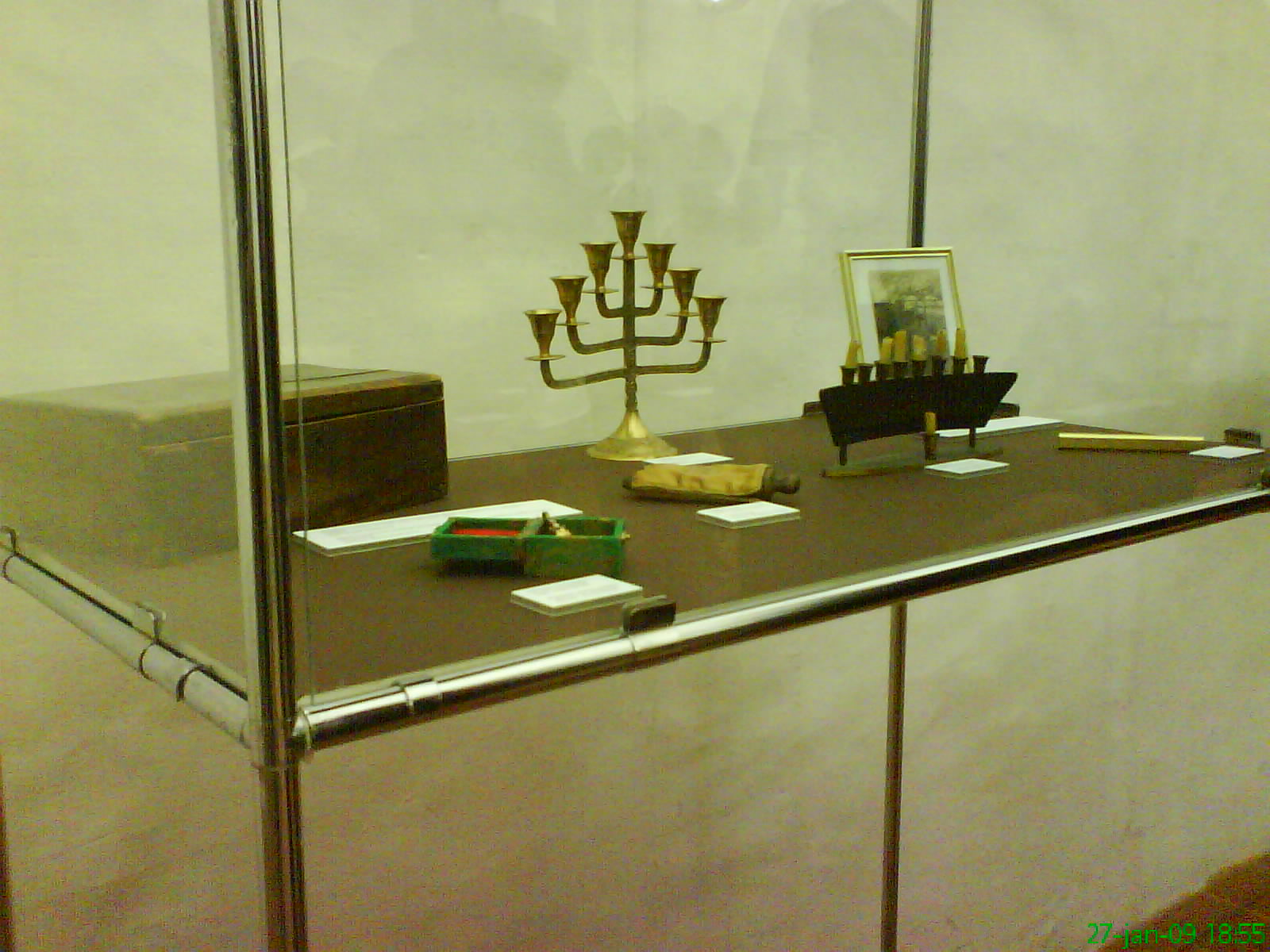 Inside of the Synagogue in Maribor. Picture was taken in January 27th 2009, when there was an exhibition.